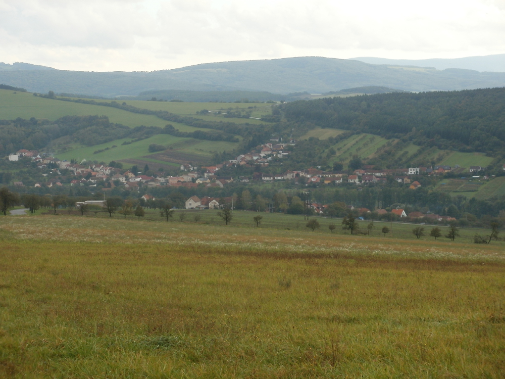 Villages Nezdenice